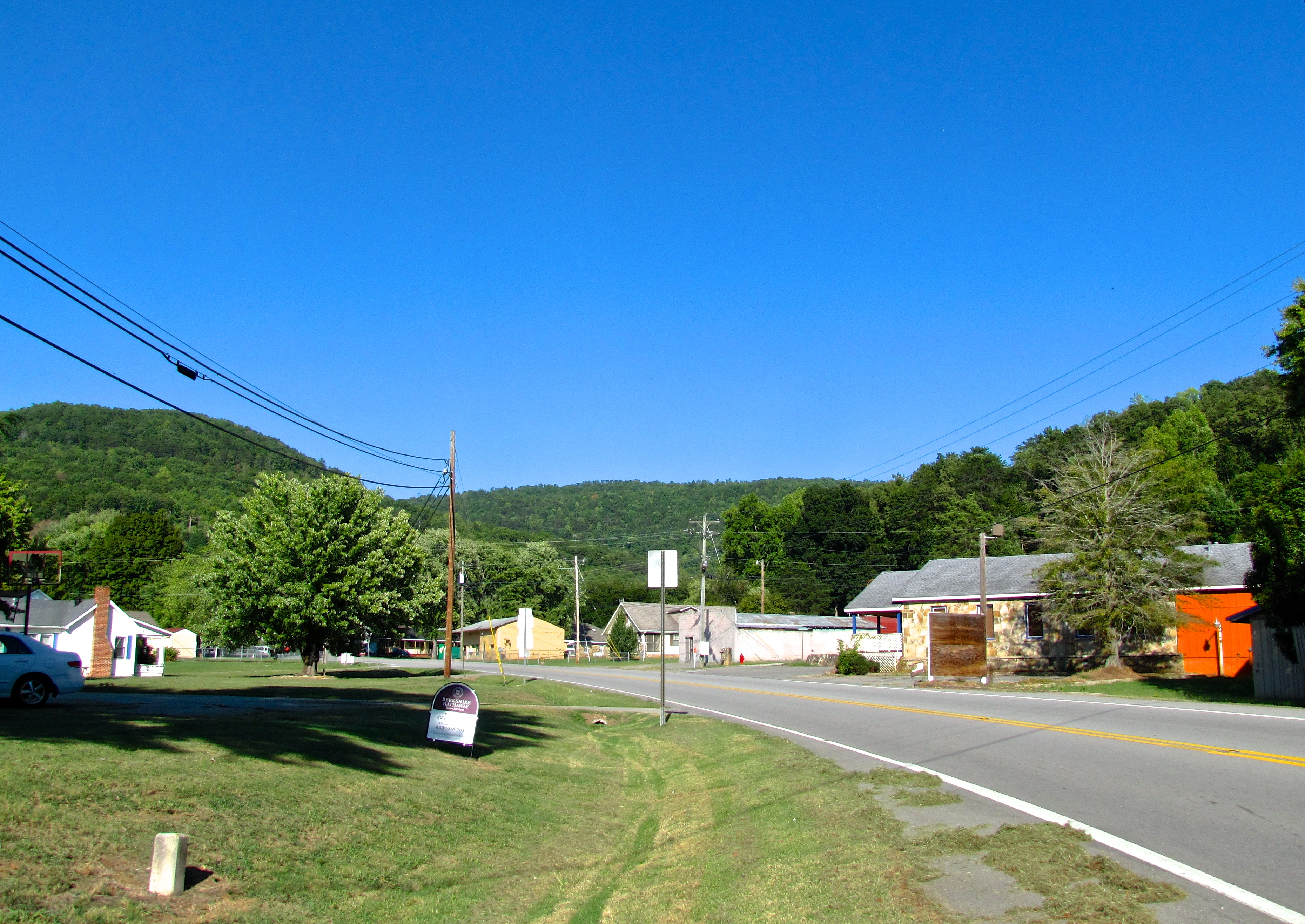 Houses along Dixie Highway (US41/US64/US72) in Haletown, Tennessee, United States.